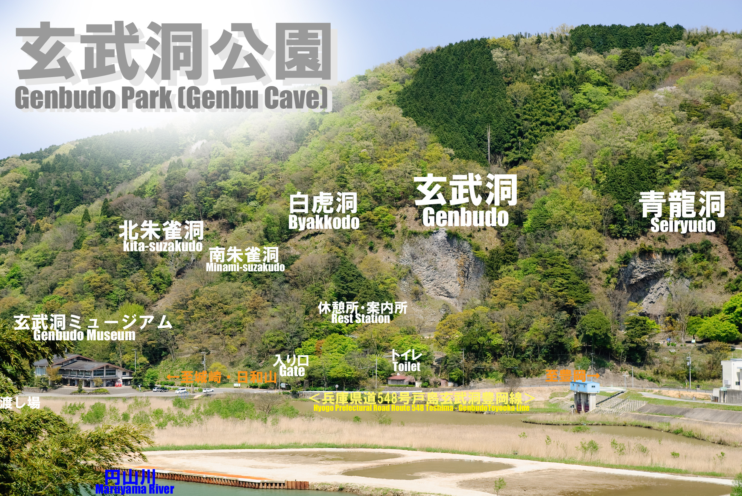 Genbudo Park in Toyooka, Hyogo Prefecture, Japan.